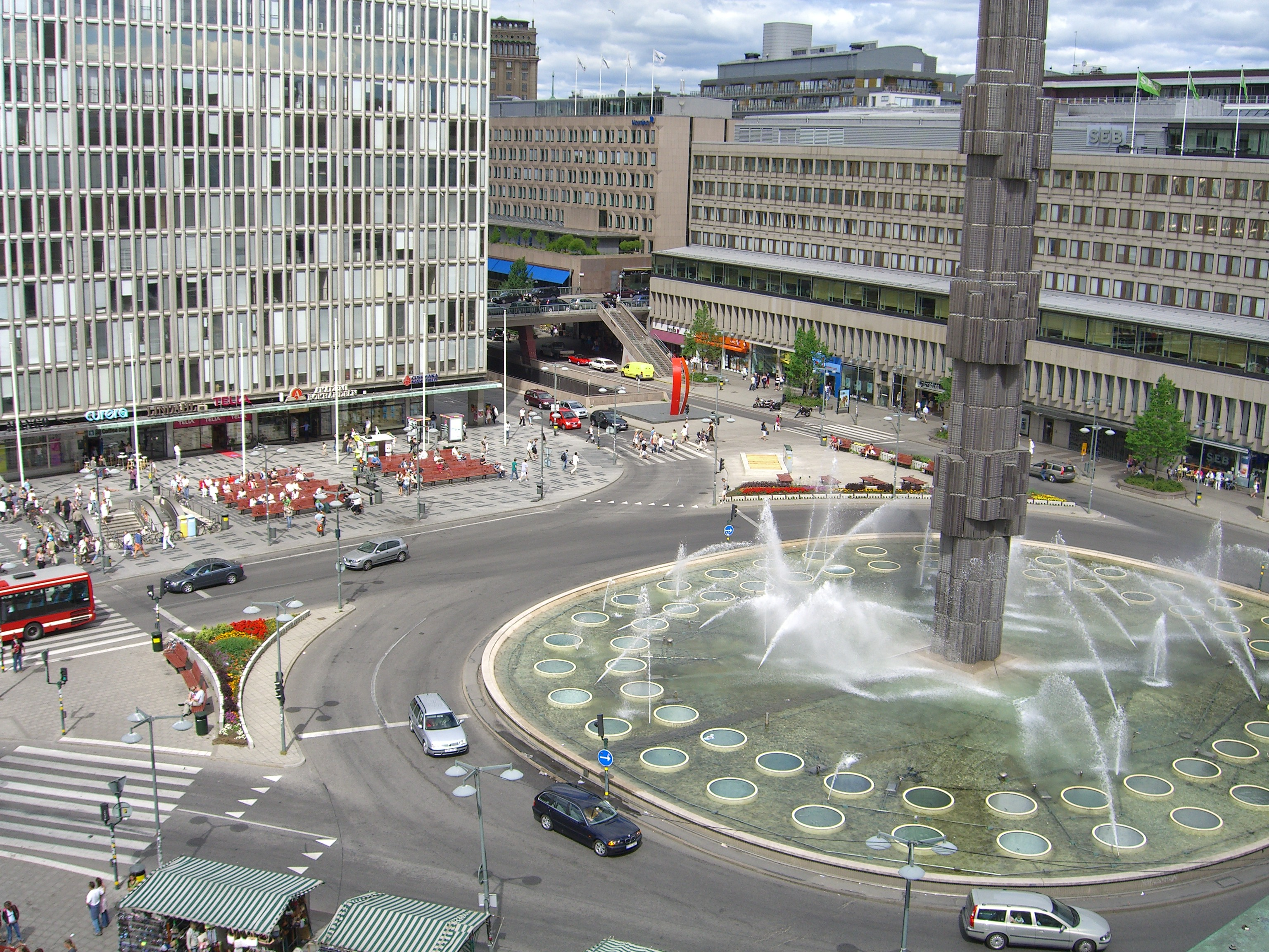 Sergels torg in Stockholm, as seen from the Kulturhuset. On the left is the 5th Hötorget building and on the right (with the three green flags) is Skandinaviska Enskilda Banken (rebranded SEB). The gray 'obelisk' in the centre of the fountain-roundabout is named Kristallvertikalaccent ('Vertical Accent of Crystal').